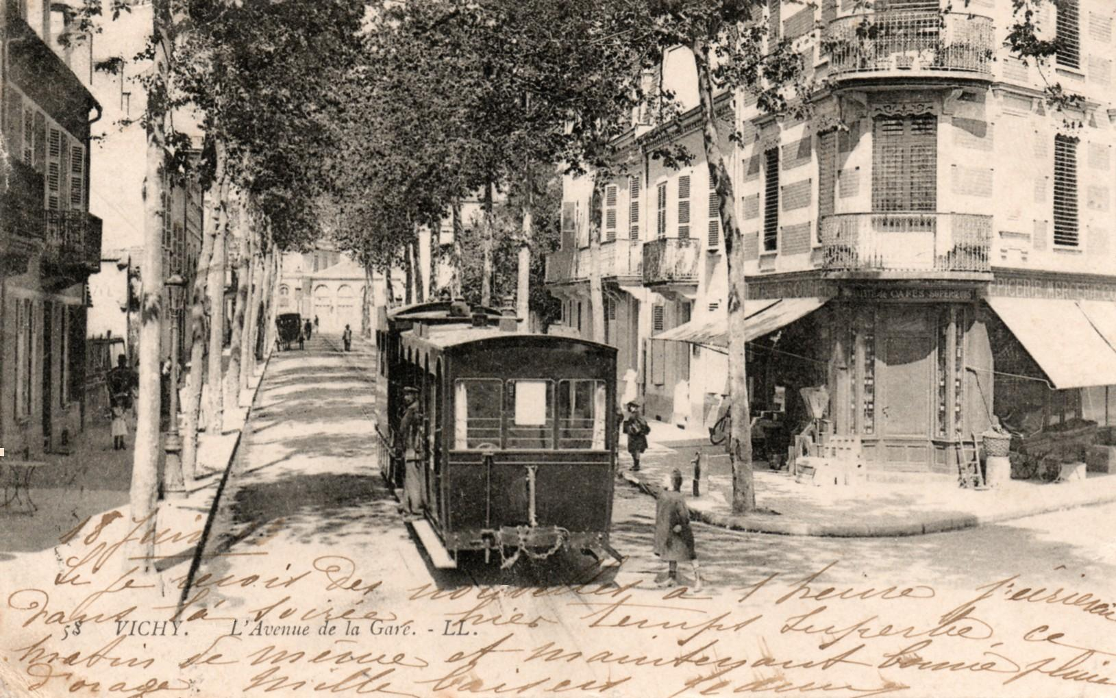 Mekarski compress air tram in Vichy (Allier, France) in 1903, Vichy-Cusset network from vintage postcard postcard published by L.L. ion 1903